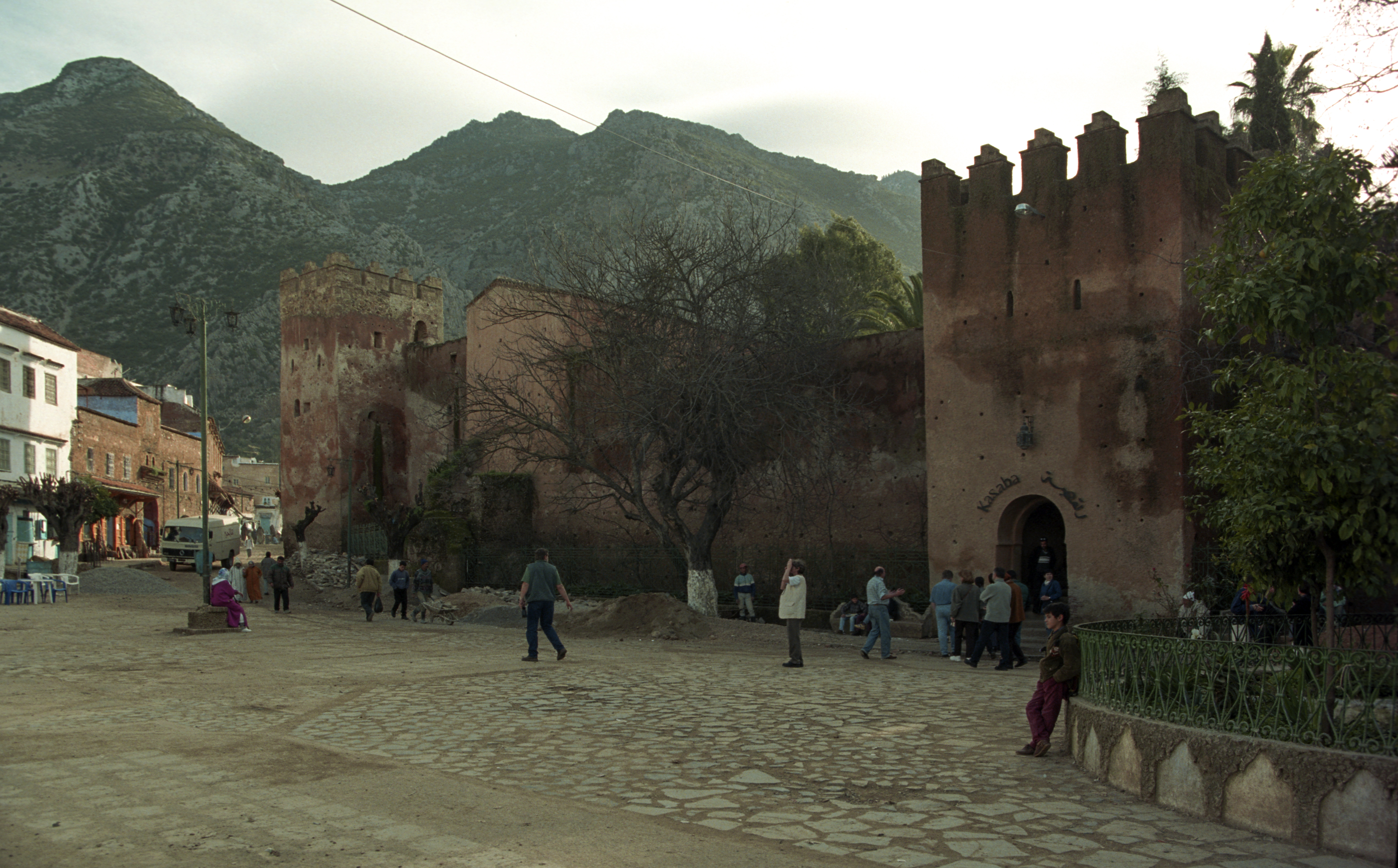 Chefchaouen, medina. Uta el-Hammam square